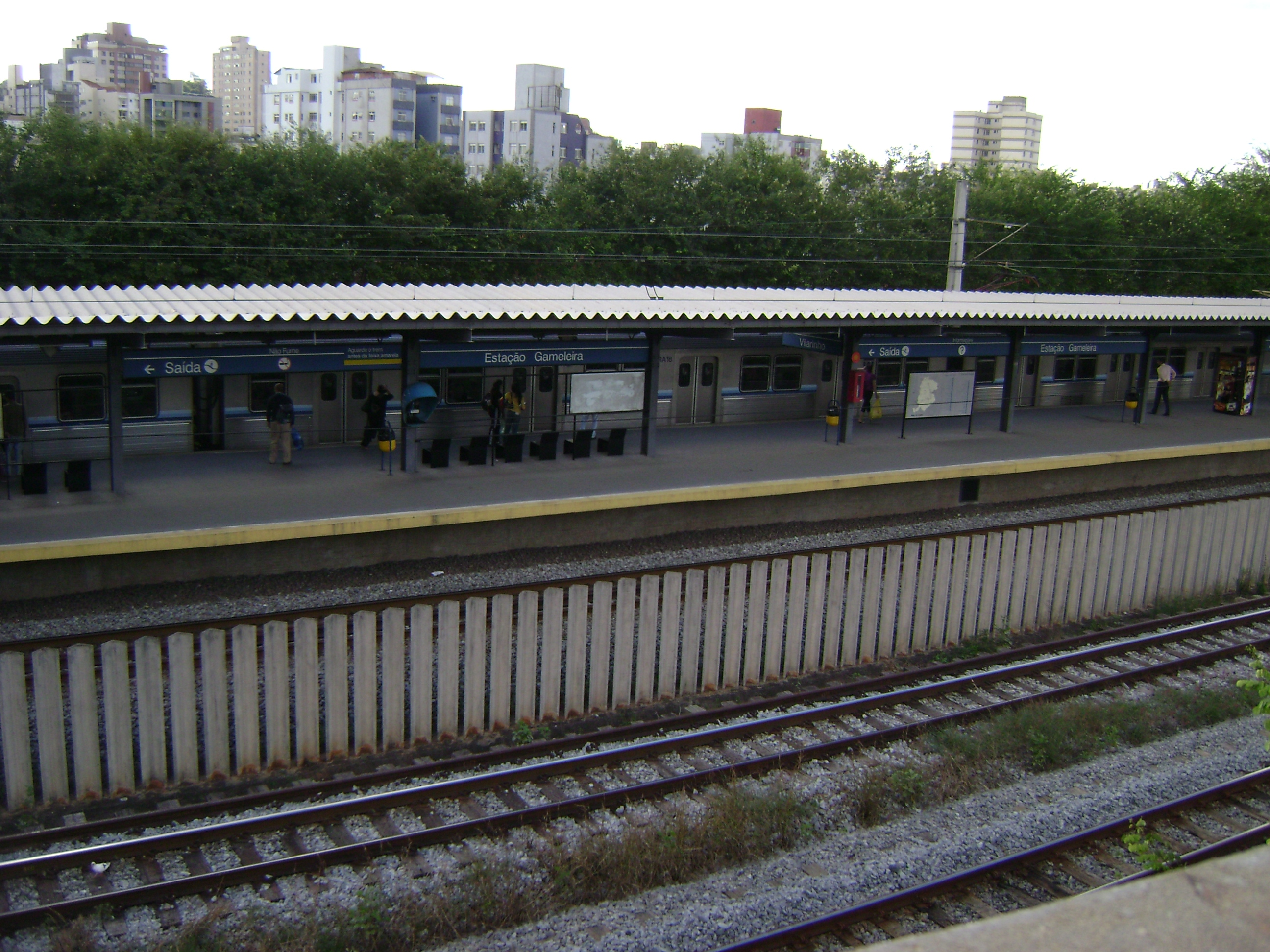 Embarque na estação de metrô Gameleira, em Belo Horizonte.